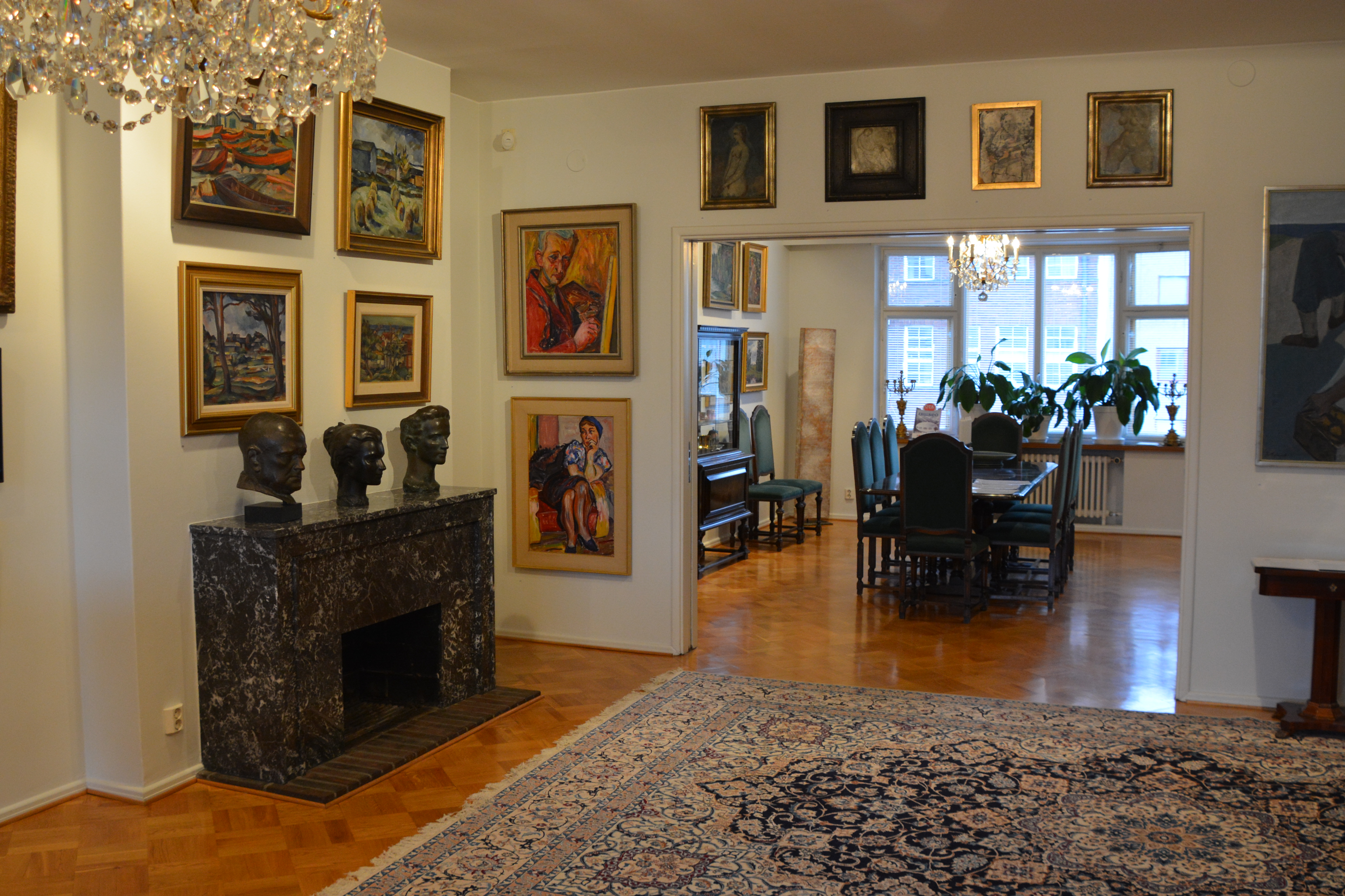 Konsthemmet Kirpilä, matsal